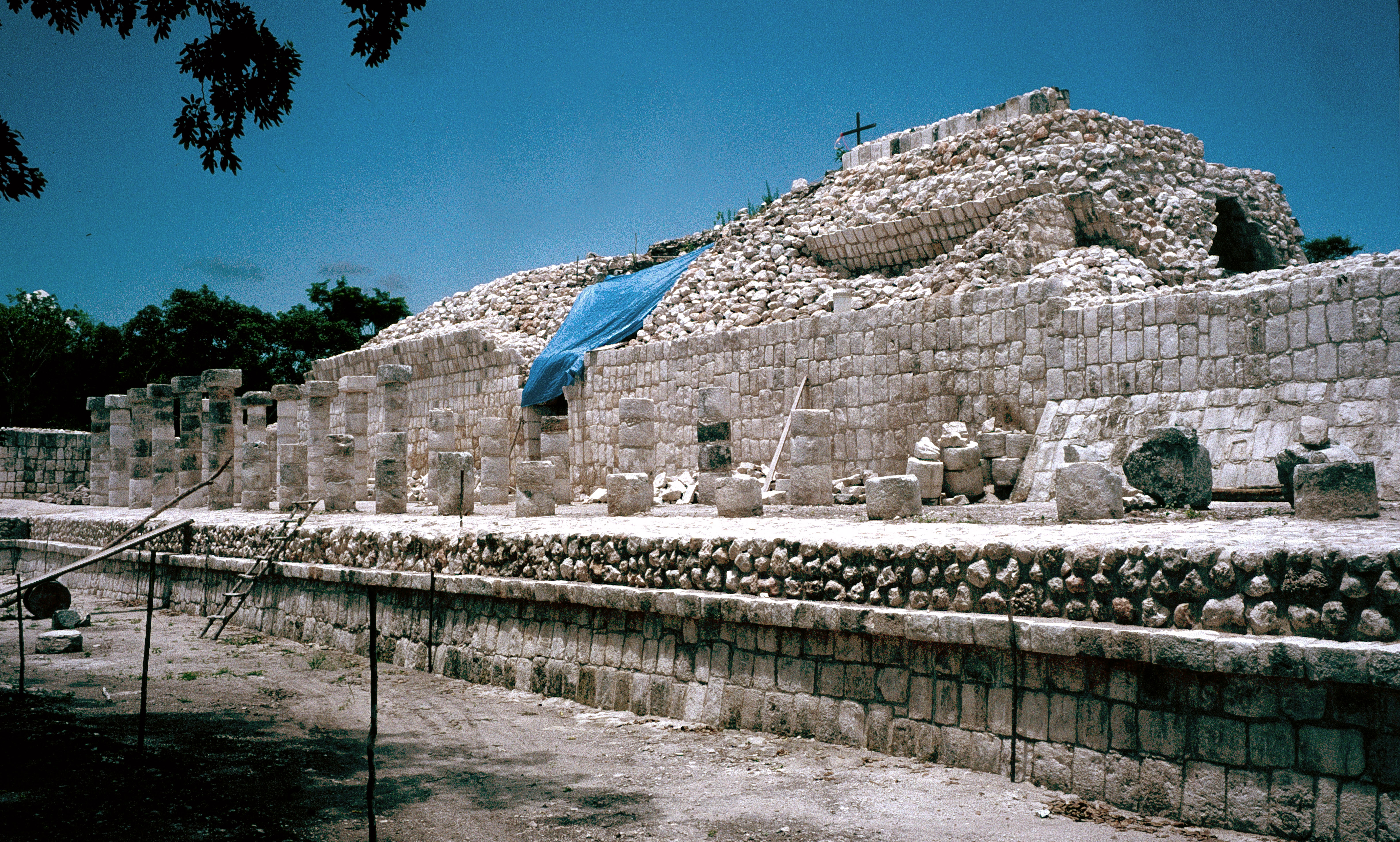 Chichen Itza, Yucatan, Mexico: building 3D5